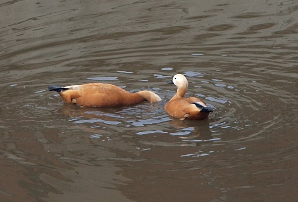 Ruddy Shelduck on Yauza River, Moscow (south from Matrossky Bridge)